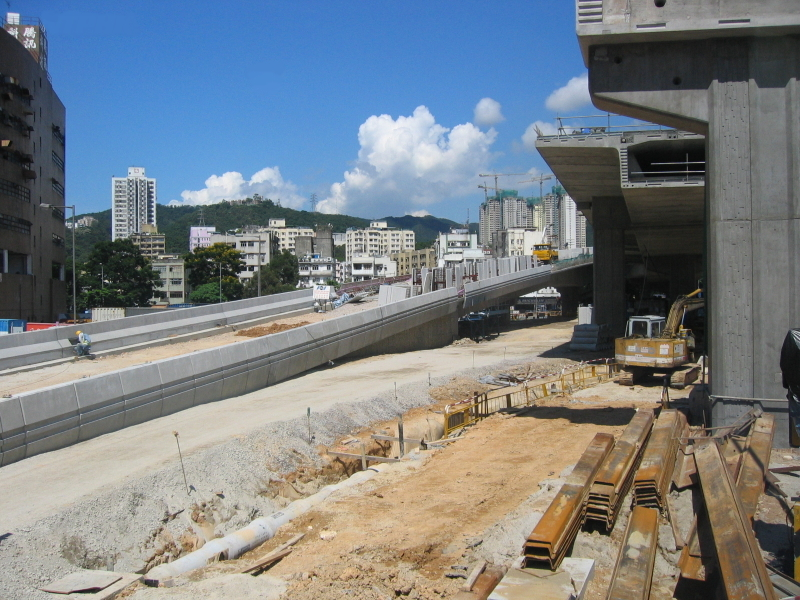 HK Road T3 During construction in 2005/07